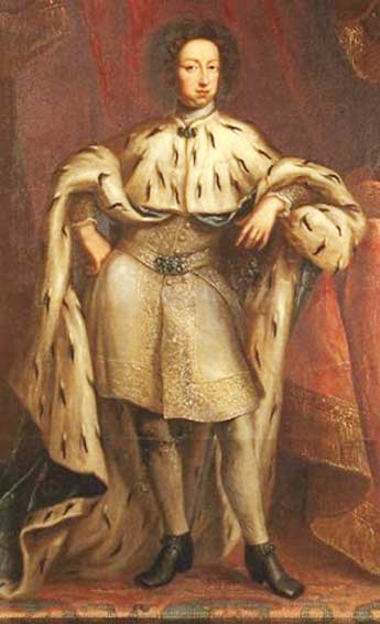 Charles XI of Sweden in his coronation outfit.